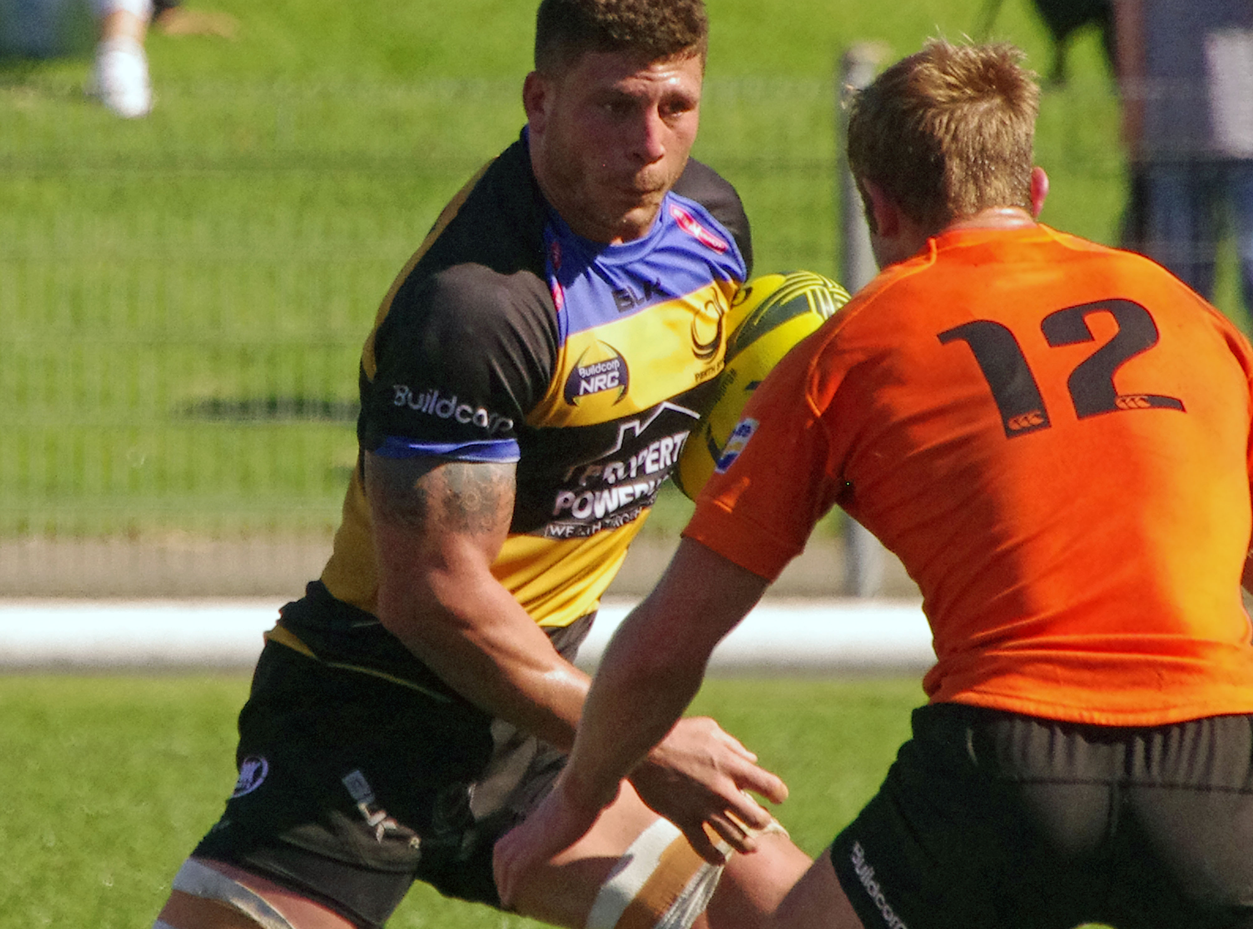 Rugby player Brynard Stander runs with the ball for Perth Spirit against the Kyle Godwin of the Country Eagles in the 2016 National Rugby Championship at Concord in Sydney, Australia.